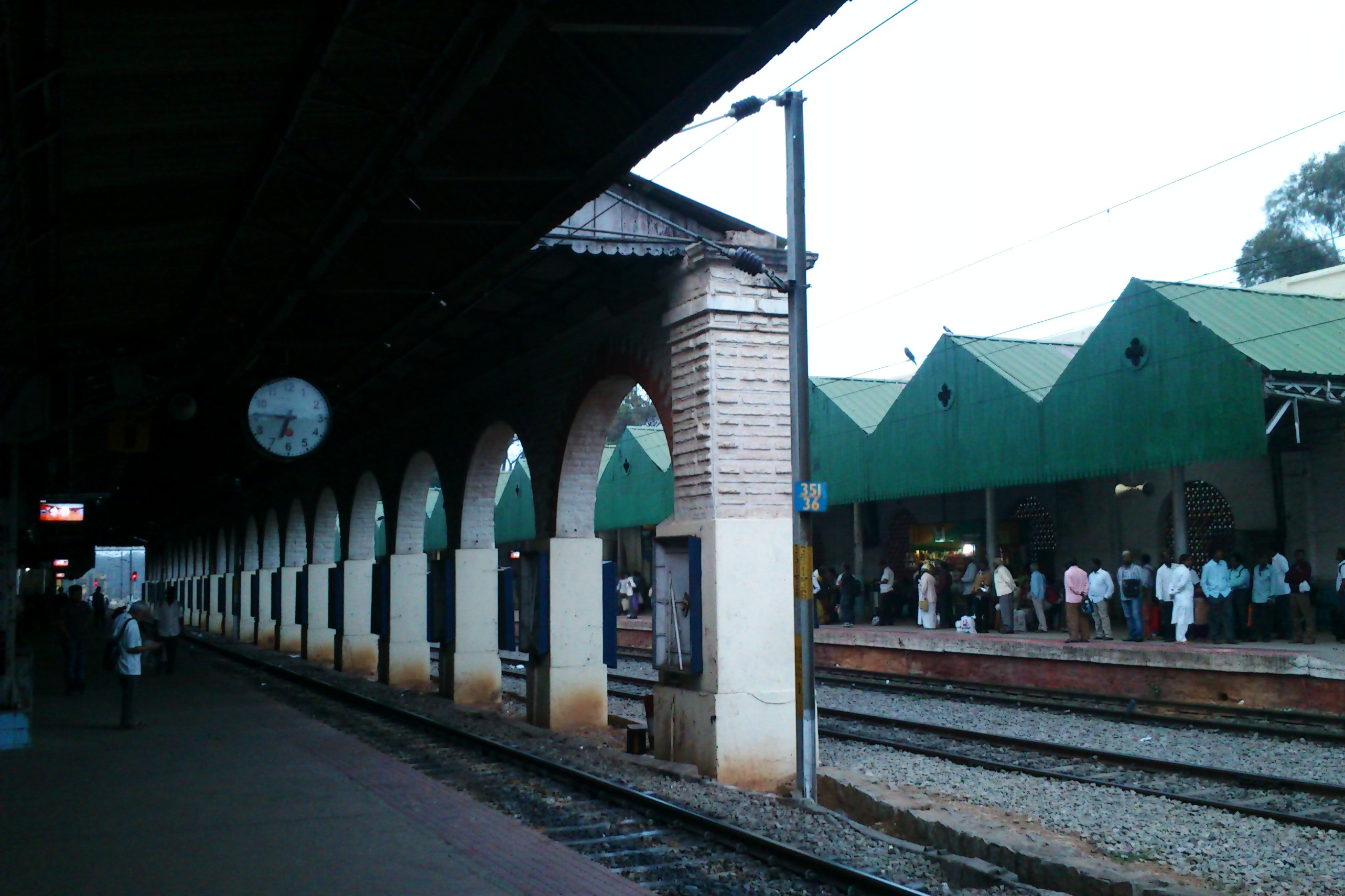 This media file is uploaded with Malayalam loves Wikimedia event - 3.